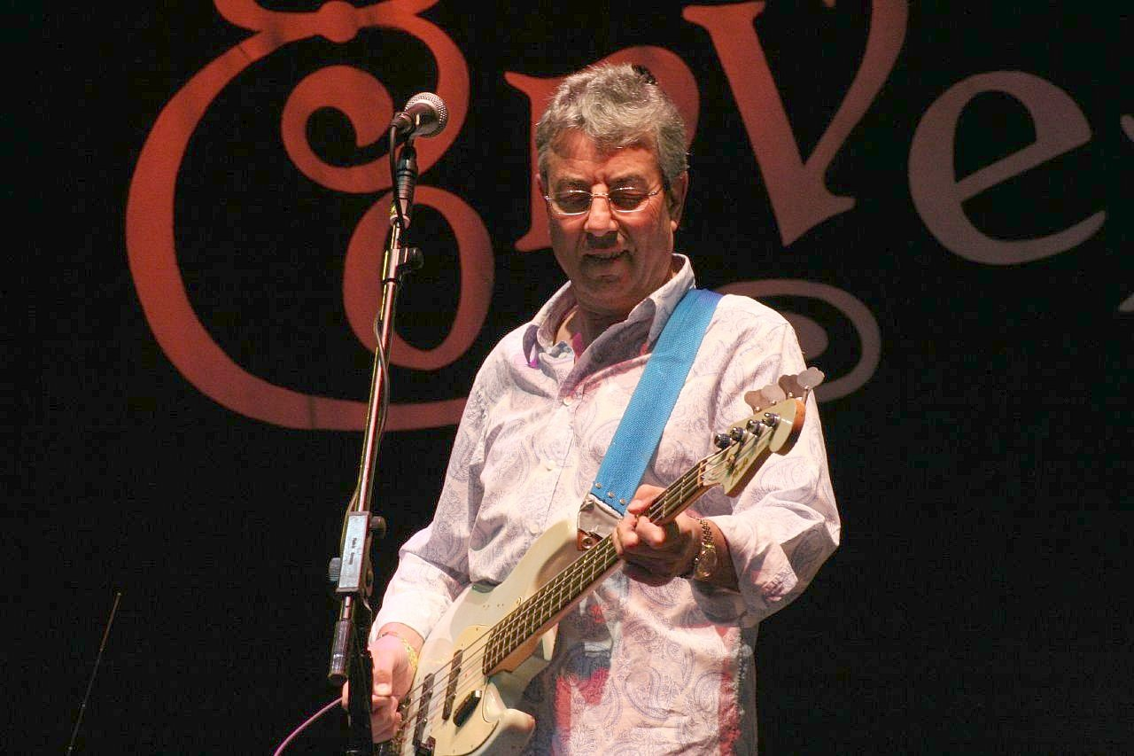 10cc: Graham Gouldman